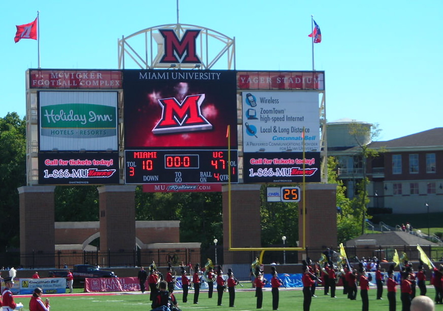 Yager Stadium - Oxford, Ohio; After the game UC’s band plays in front of the scoreboard showing the final score.